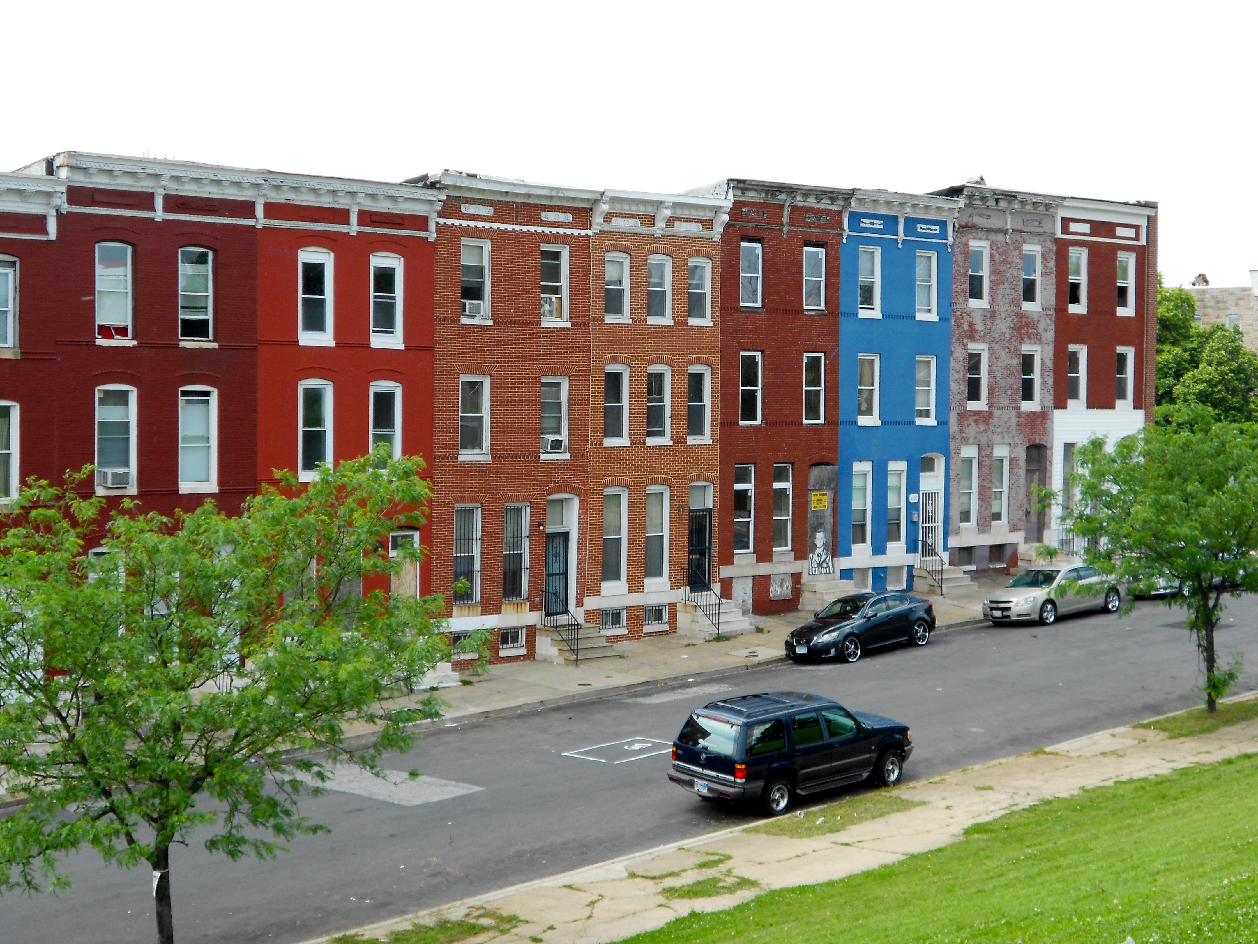 Row houses from the topo of the hill in the park in Old East Baltimore Historic District. Listed on the NRHP on December 27, 2006. The HD is generally bounded by Jones Falls, Greenmount Cemetery, North Ave., Broadway, and Madison, Ashland and Eager Sts.